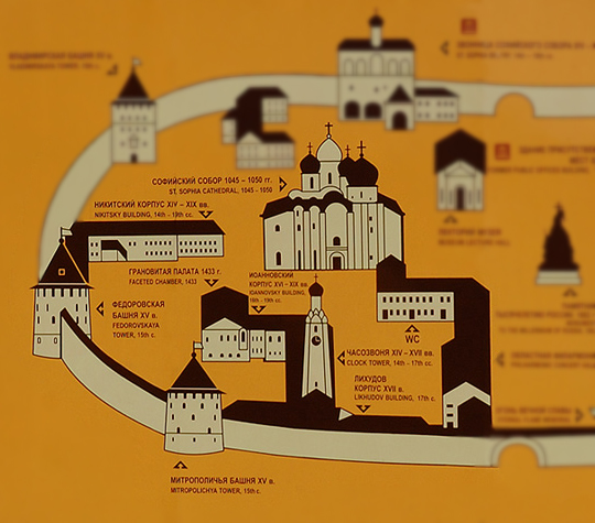 Schematic map of the northern half of the Novgorod kremlin, seen from the west.